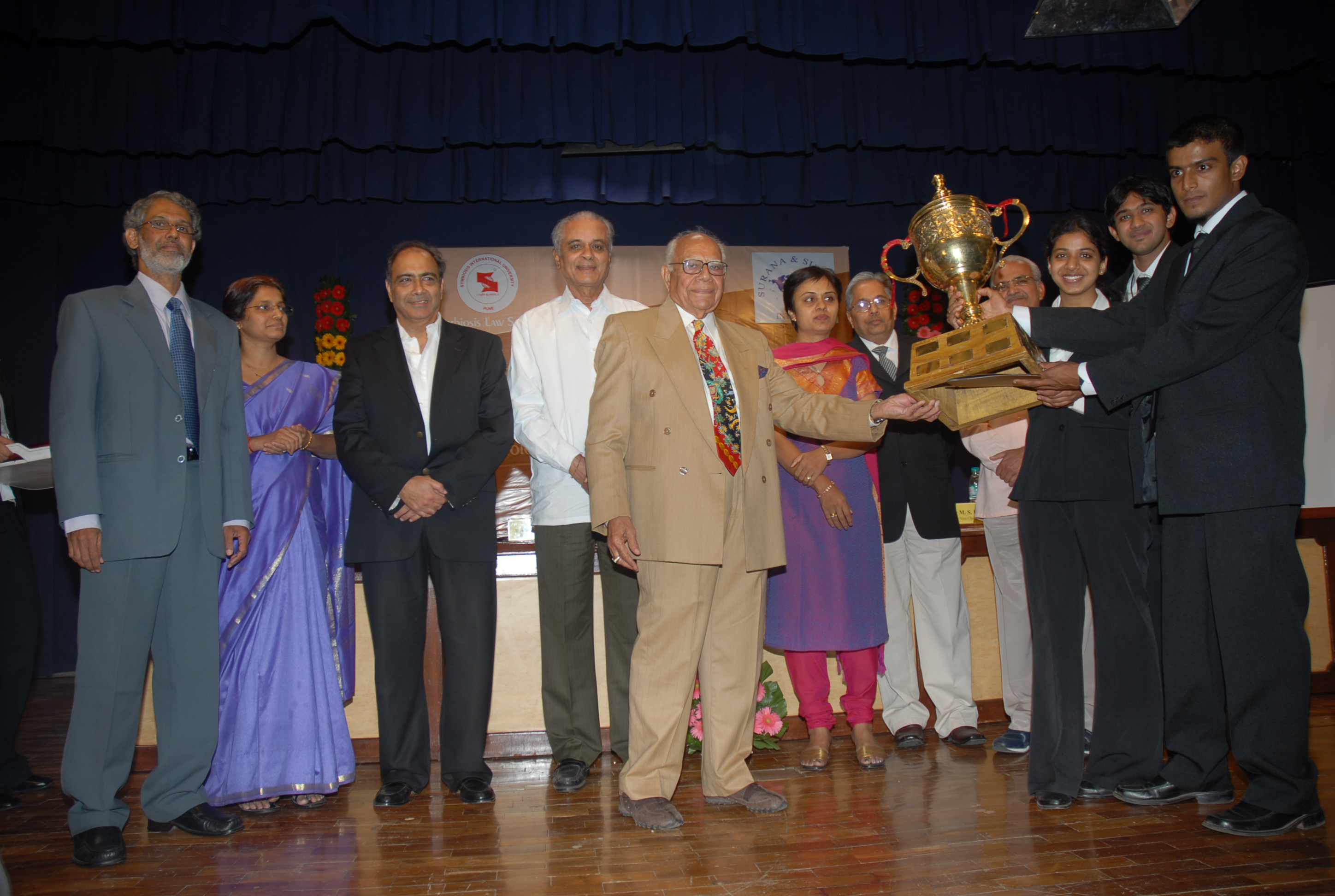 Technology Law Moot 2008 Sr. Advocate Shri Ram Jethmalani, Advocate Shri Mahesh Jethmalani, Padmashree S B Mujumdar, Founder, Symbiosis, Ms. Vidya Yerdevkar, Symbiosis, Prof. Shashikala Gurpur, Director SLS Pune, Prof. M S Raste, VC, Symbiosis International University, Dr. S. Ravichandran, Head - Academic Initiatives, Surana & Surana International Attorneys